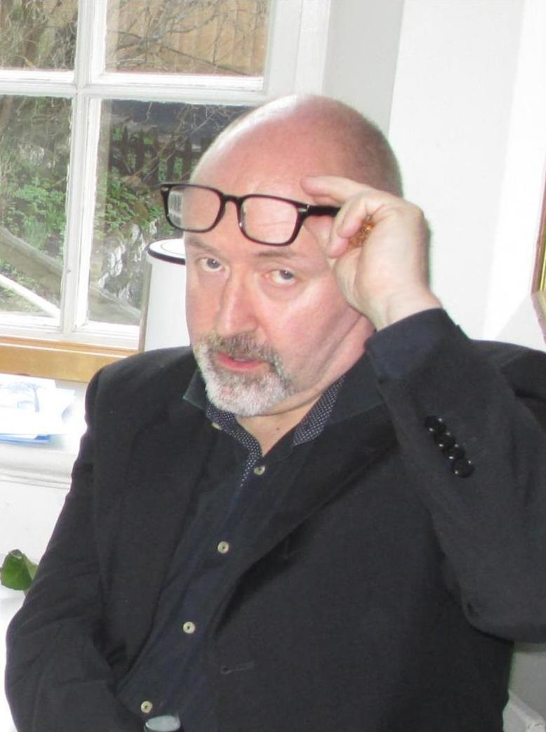 Lars ClevemanPlace: Ulriksdal Palace Theater, Solna, Sweden